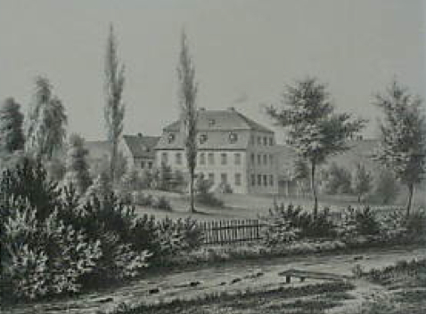 manor in Ruppertsgruen (Fraureuth), Saxony in its estate of 1854/60